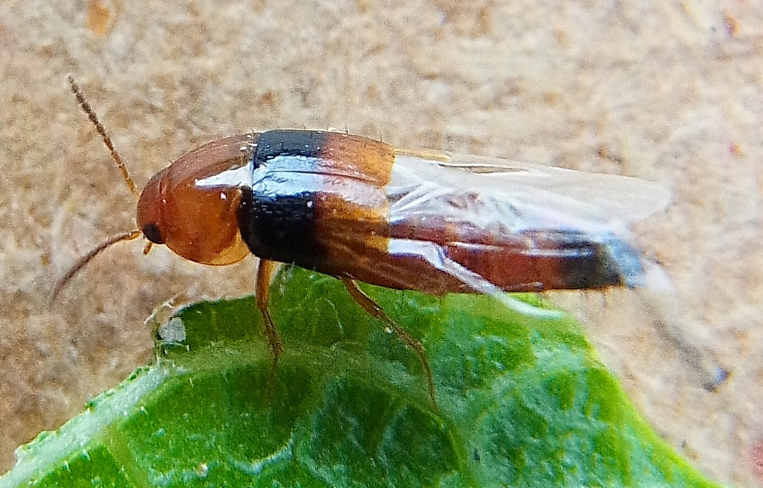 Tachyporus obtusus with opened wings from northern Spain, north side of Cantabrian mountains about 50 km southwest of Santander at 2013-08-13 at the bank of river